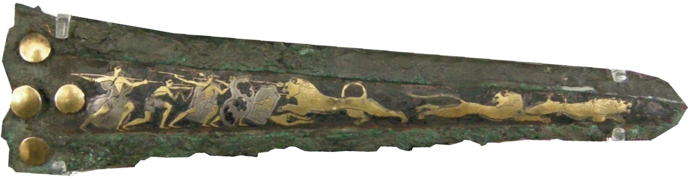 image extracted